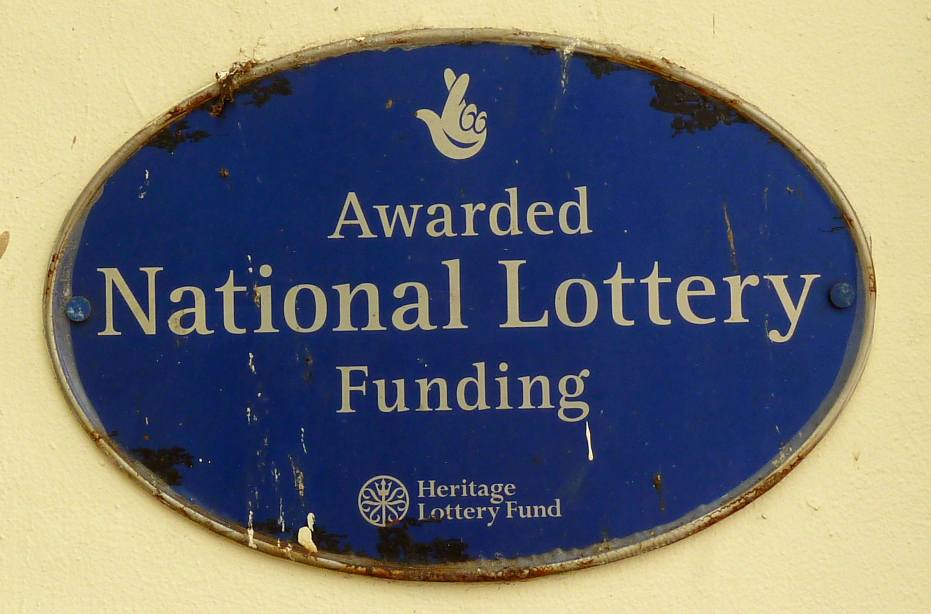 National lottery plaque on the Central Bandstand, Herne Bay, Kent, England. Built 1924. The stains on the plaque indicate the presence of herring gulls and feral pigeons.